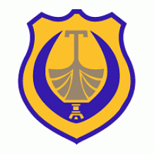 Coat-of-Arms of Tivat (Montenegro)